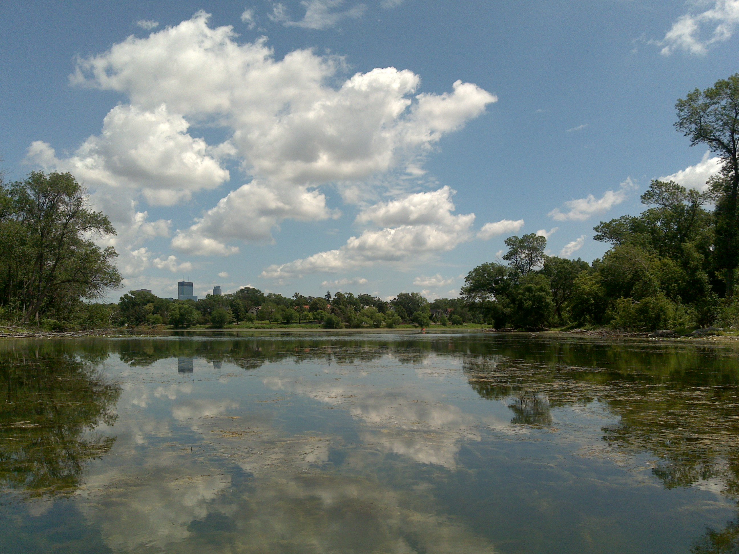 Lake of the Isles, Minneapolis. Wildlife reserves at the two islands visible in the left and right frames.